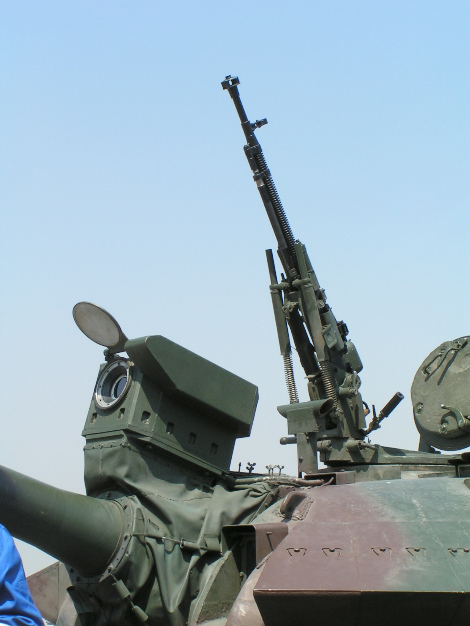 TR-85M1-DsHK & Laser Acquisition System, BSDA_2007, Bucharest-Romania